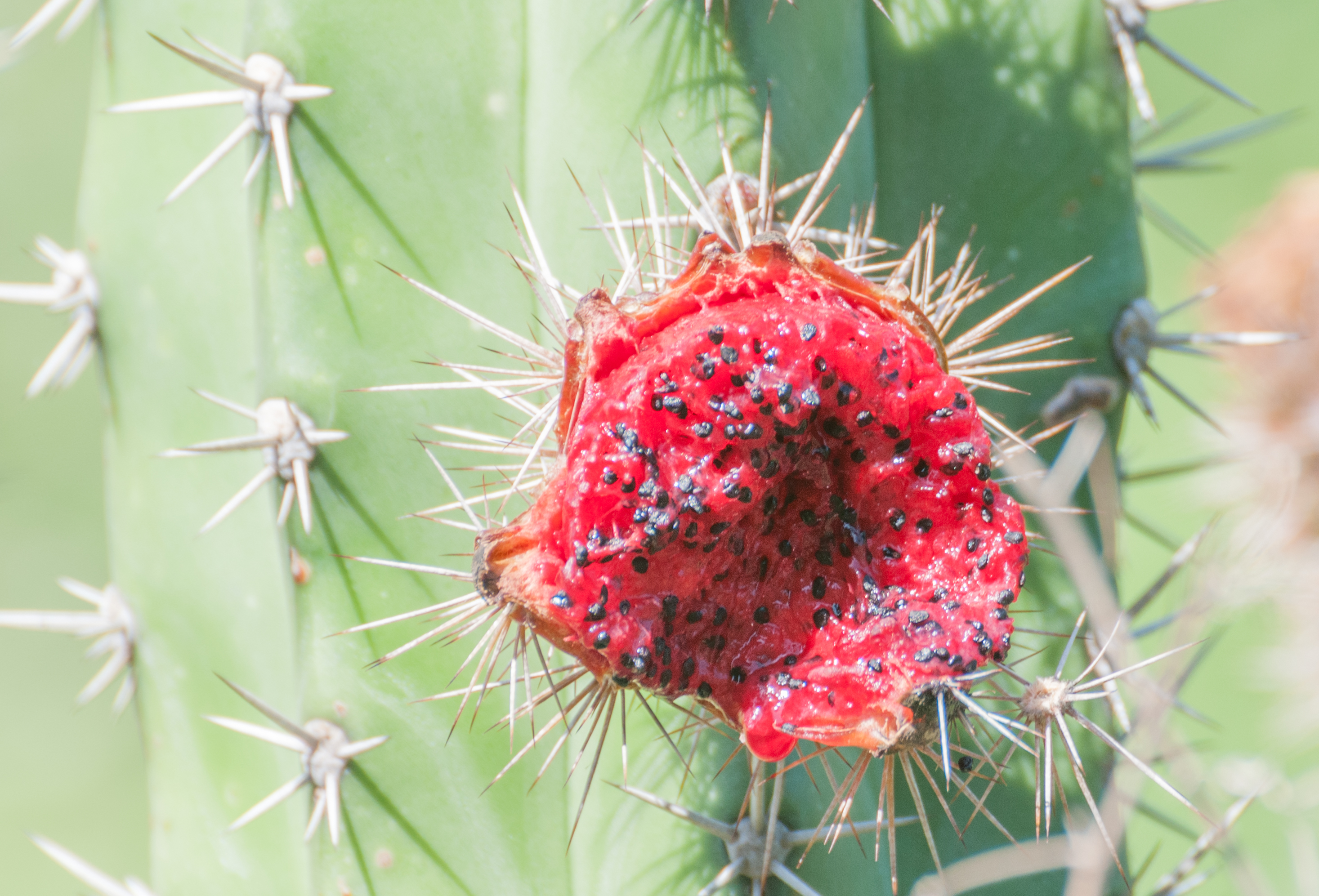 Cardon cactus fruit, Providencia Island, Zulia